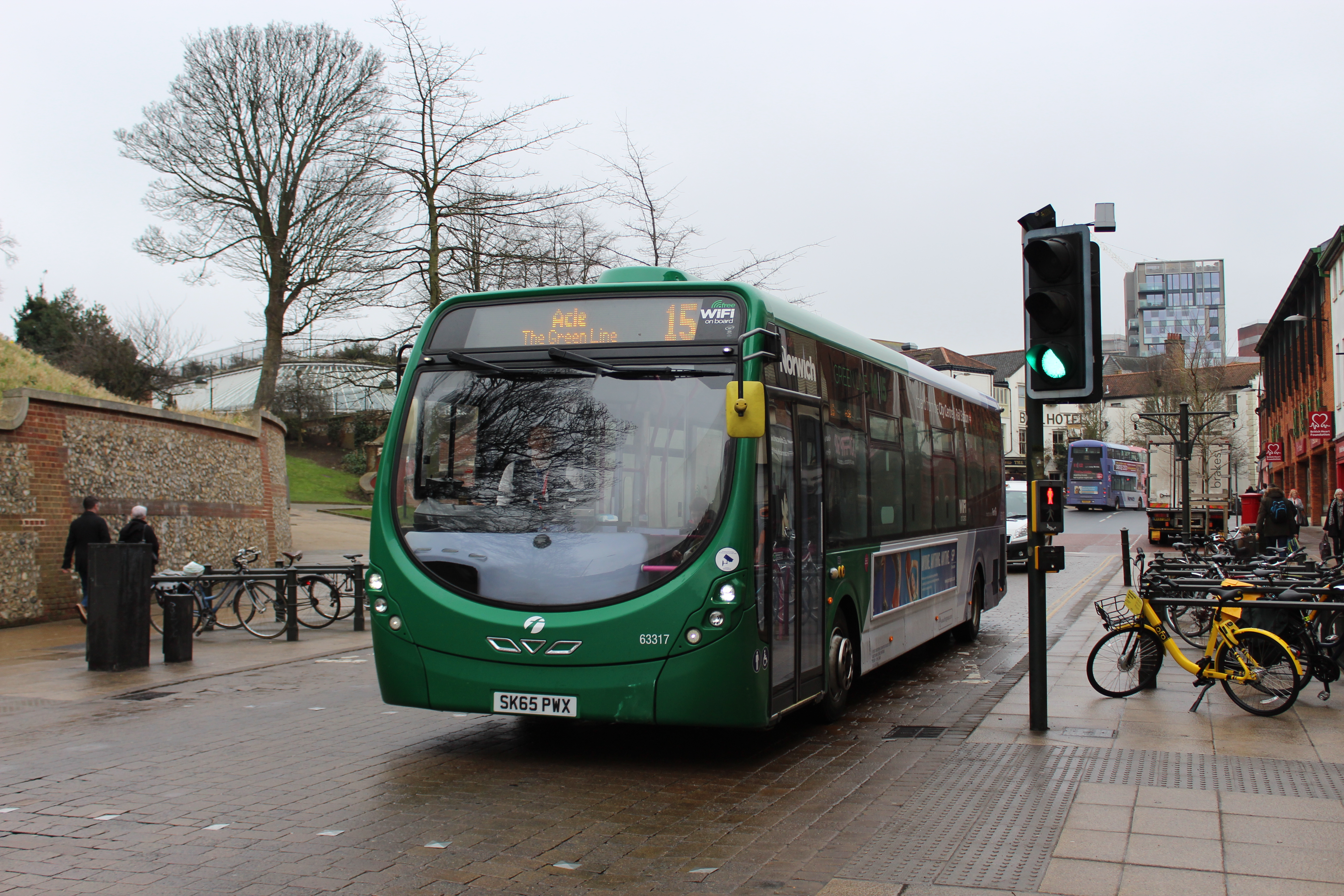 A Wright StreetLite Max carrying Network Norwich Green Line branding in Norwich, Norfolk